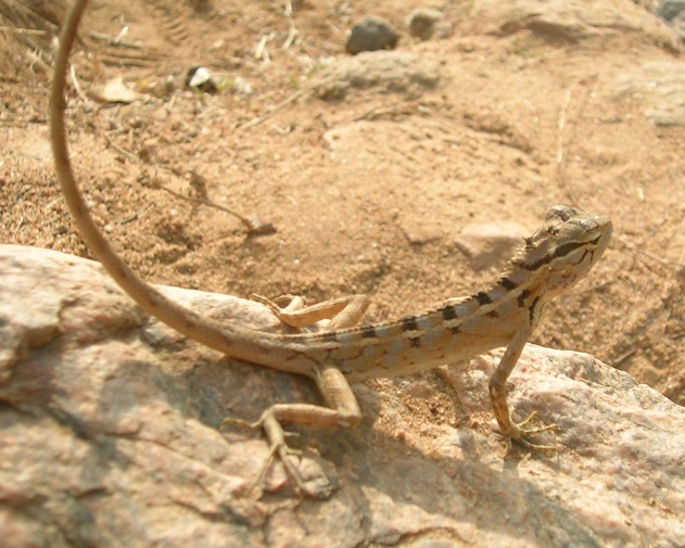 Calotes versicolor female from Thiruvannamalai, Tamil Nadu, India